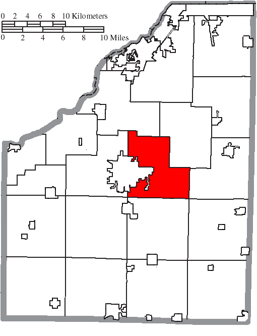 Map of the municipal and township boundaries of Wood County, Ohio, United States, as of the 2000 census, with the location of Center Township highlighted. Township borders are shown only in unincorporated areas in order to differentiate incorporated and unincorporated areas more clearly.